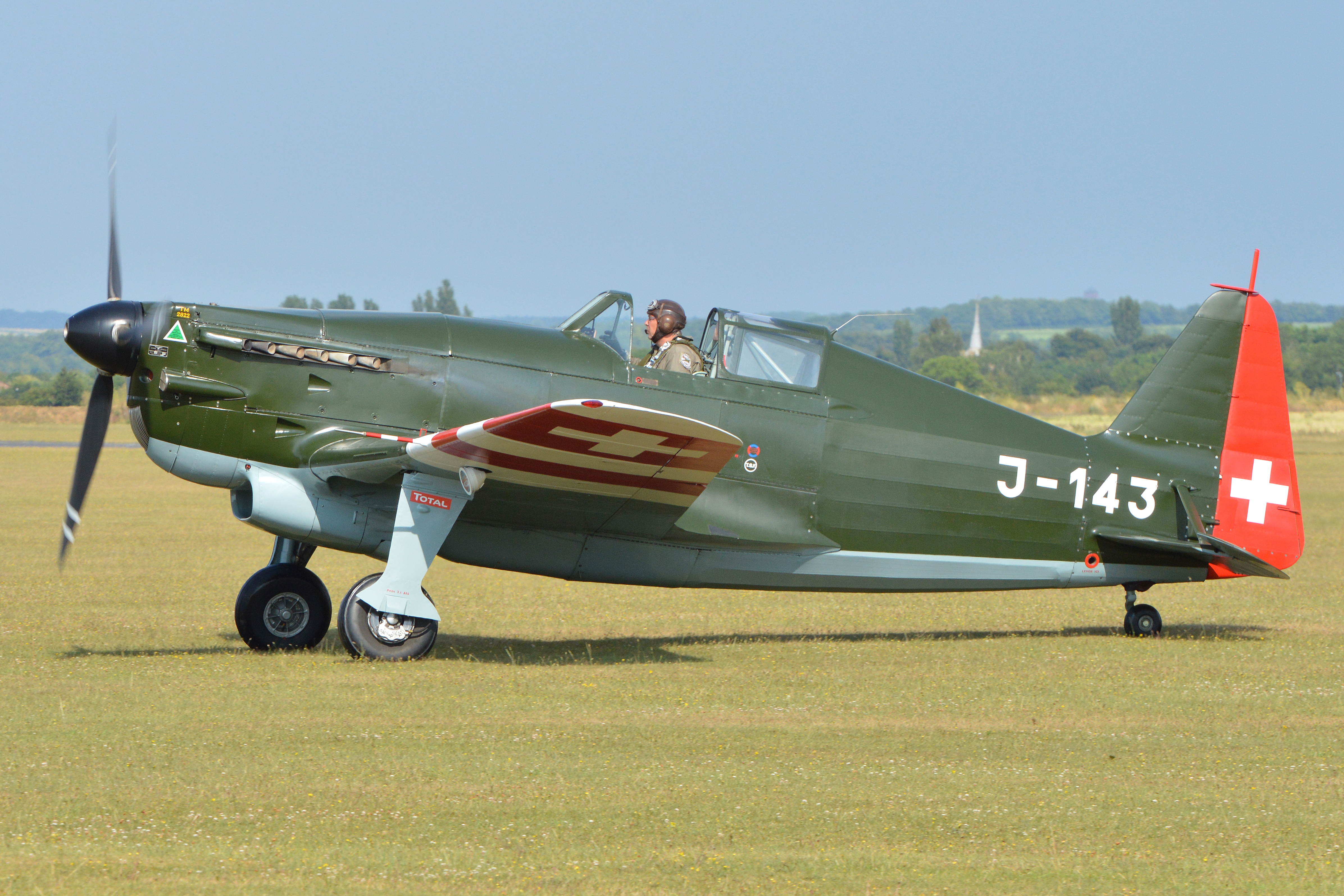 c/n 194. Built 1942. Currently operated by “Association Morane Charlie Fox”. The D-3801 was a Morane 406 built under license in Switzerland. One of 250 built, this example was operated by the Swiss Air Force until 1959. Having flown for several years false French Air Force markings, it has now been repainted into genuine Swiss colours. 2015 Flying Legends Airshow. Duxford, Cambridgeshire, UK. 12-7-2015